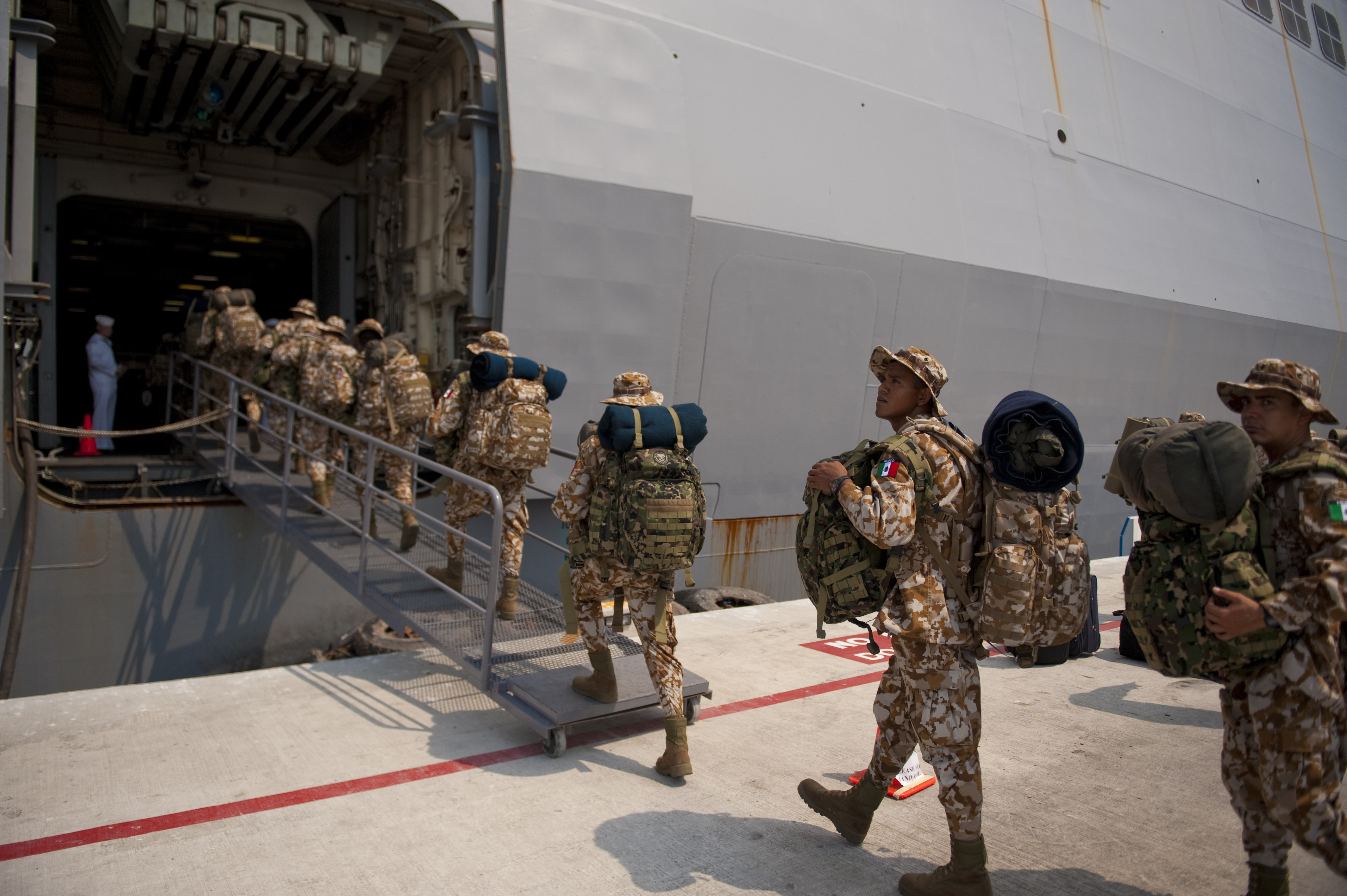 MANZANILLO, Mexico (June 20, 2010) Mexican marines board the amphibious transport dock ship USS New Orleans (LPD 18) for exercises in Manzanillo, Mexico. New Orleans is participating in Southern Partnership Station, an annual deployment of U.S. military training teams to the U.S. Southern Command area of responsibility in the Caribbean and Latin America. (U.S. Navy photo by Mass Communication Specialist 1st Class Brien Aho/Released)